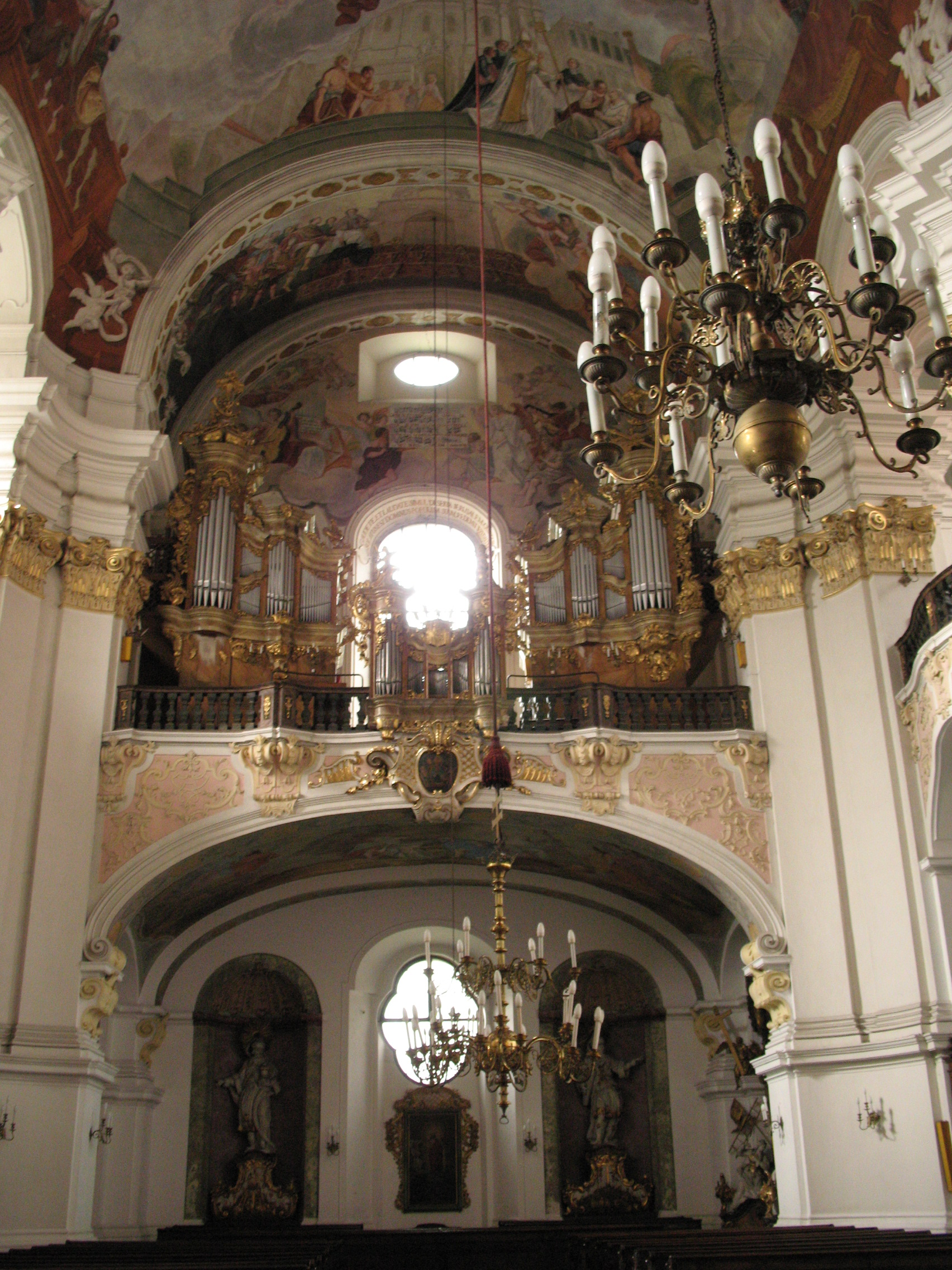 Saints Peter and Paul Church in Nysa, Lower Silesia, Poland